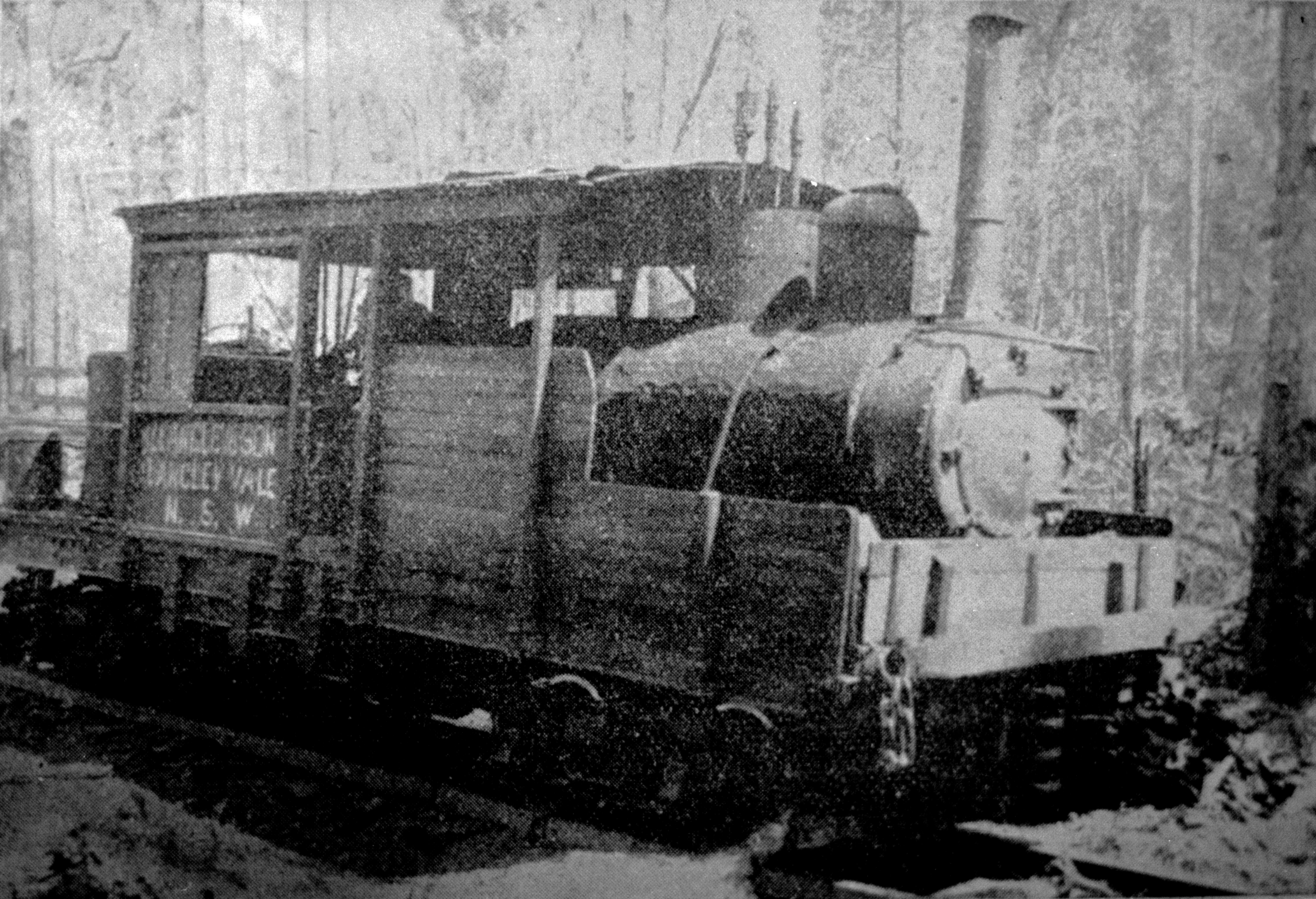 CRHSN0549_Box 17 Steam locomotive, NSW [n.d.]